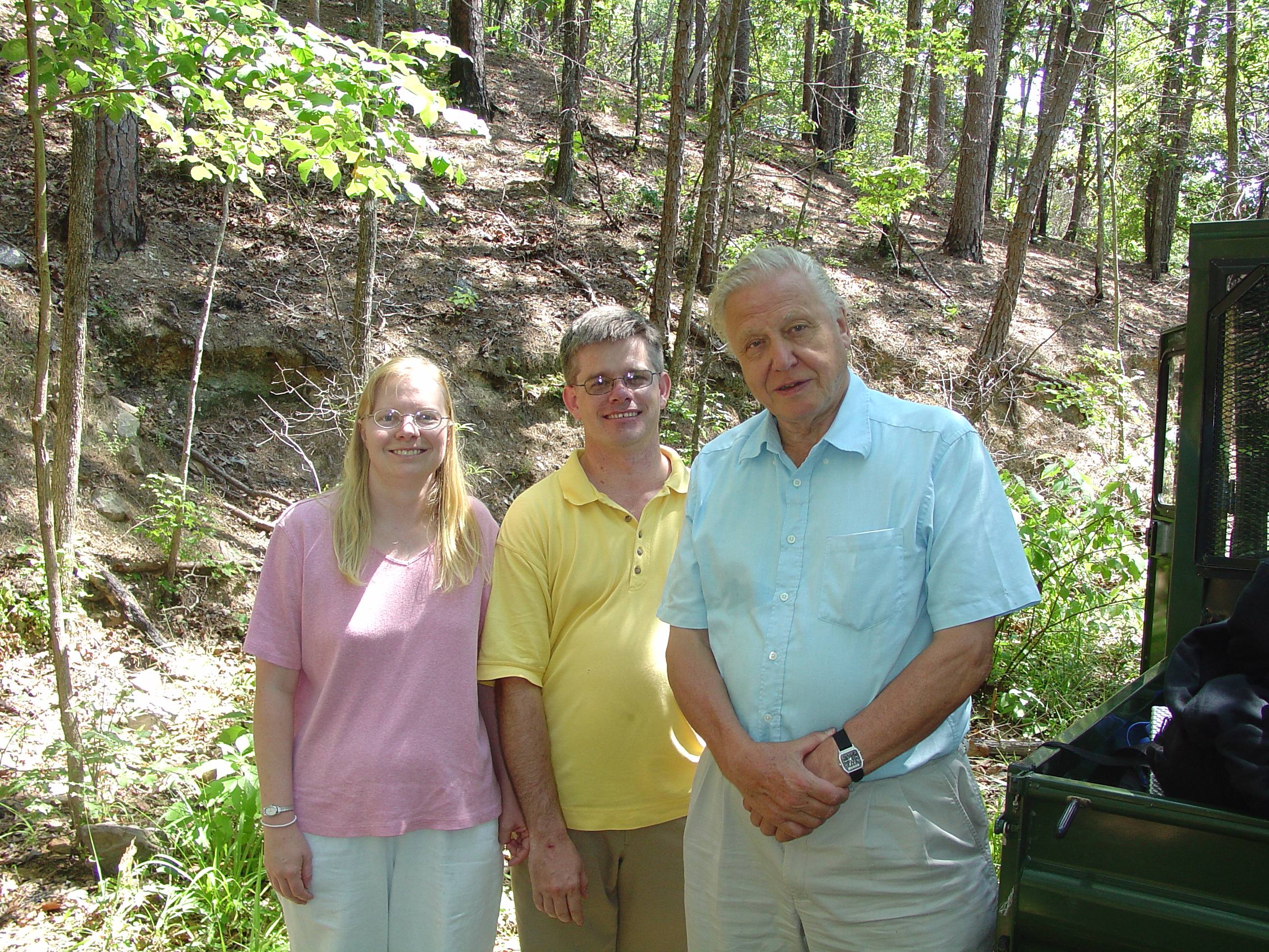 Photo of Jamie and Malcolm McCallum with David Attenborough Other information